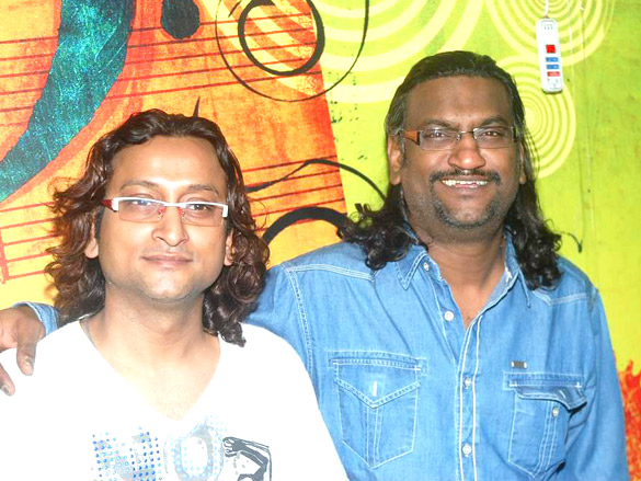 Ajay-Atul at Audio release of 'Agneepath' at Radio City 91.1 FM